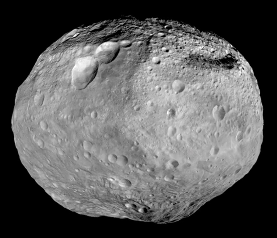 As NASA's Dawn spacecraft takes off for its next destination, this mosaic synthesizes some of the best views the spacecraft had of the giant asteroid Vesta. Dawn studied Vesta from July 2011 to September 2012. The towering mountain at the south pole — more than twice the height of Mount Everest — is visible at the bottom of the image. The set of three craters known as the "snowman" can be seen at the top left.